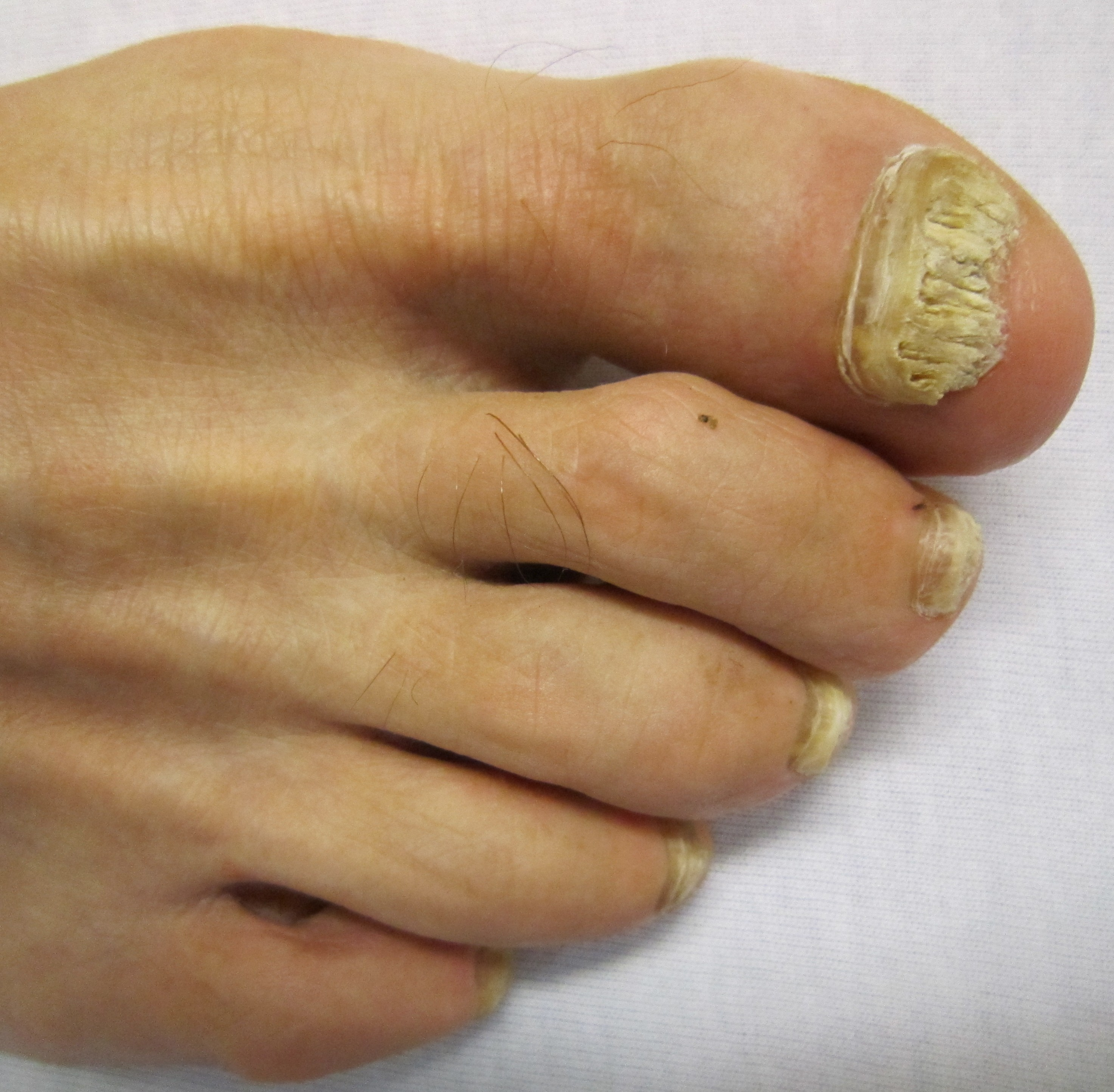 Onychomycosis of the toes nails.